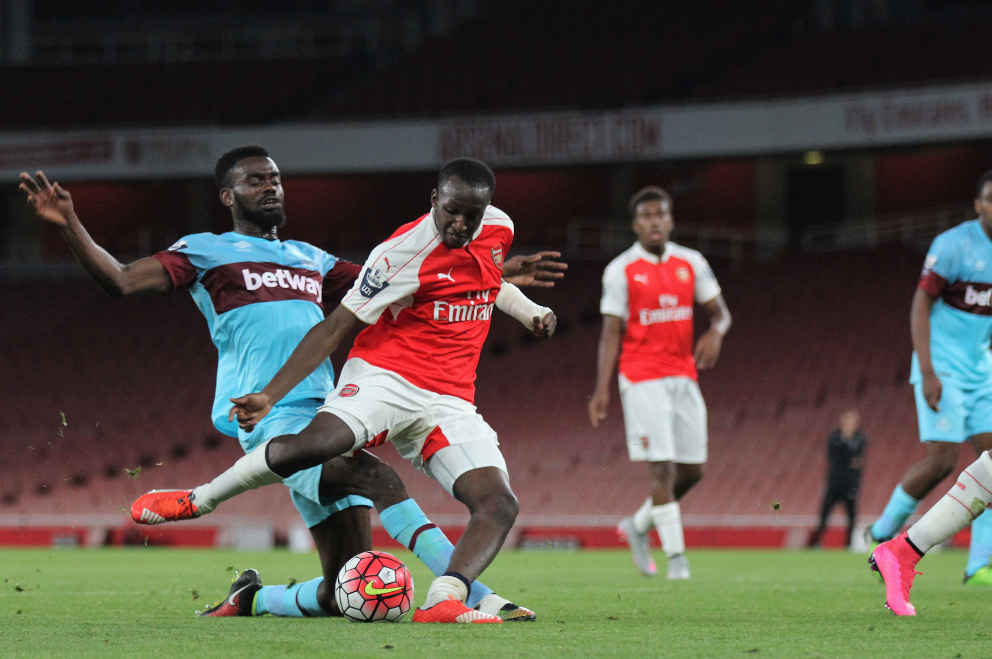 Glenn Kamara scoring against West Ham for Arsenal in the Premier Academy League